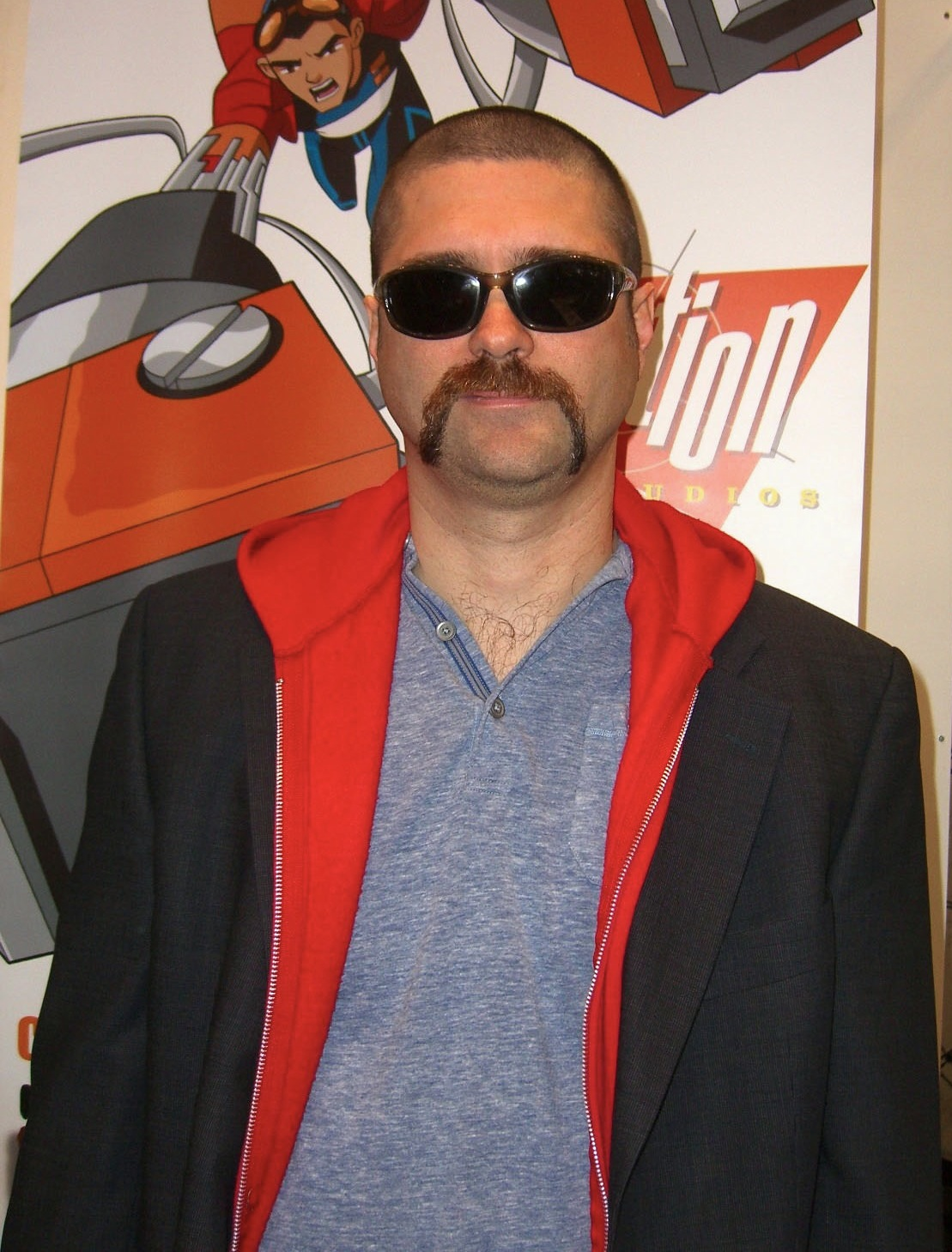 Comics creator Joe Casey at the Man of Action booth on Day 4 of the 2012 New York Comic Con, Sunday October 14, 2012 at the Jacob K. Javits Convention Center in Manhattan. This photo was created by Luigi Novi. It is not in the public domain, and use of this file outside of the licensing terms is a copyright violation.